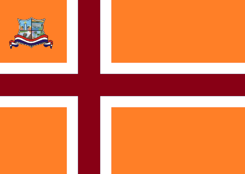 Flag